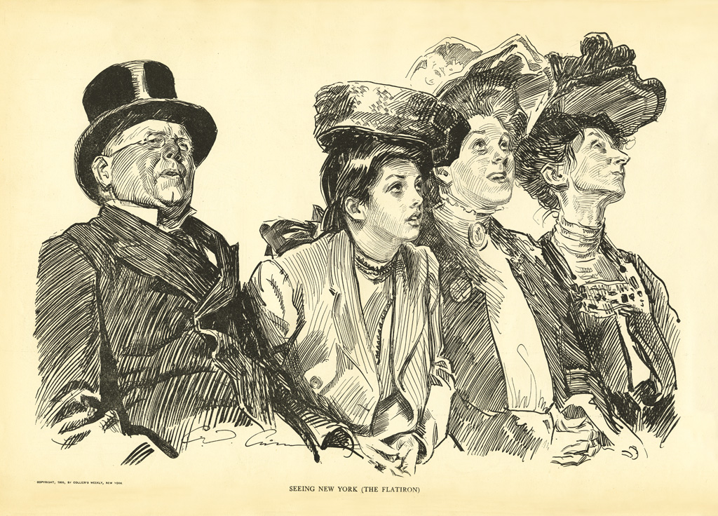 Charles Dana Gibson (American illustrator, 1867-1944) 1905 pen and ink on paper illustration for Collier's Weekly; published in the artist's collection Our Neighbors (1905) See MCAD Library's catalog record for this book. Gibson, Charles Dana. The Gibson Book; a Collection of the Published Works of Charles Dana Gibson ... New York: C. Scribner’s Sons [etc.], 1906